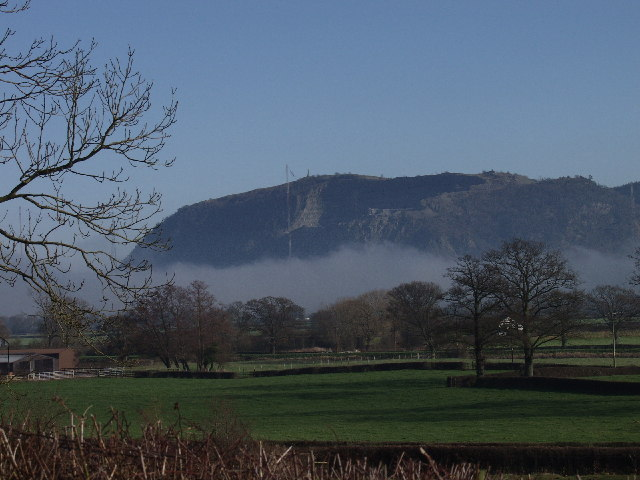 Breidden Hill surrounded in mist. Breidden Hill is a Basalt plug and is being quarried at Griggion Quarry. The large aerials in front of the hill were ULF masts that have now been removed.